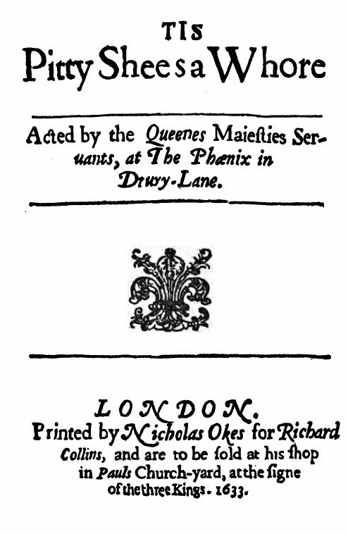 Title page of the 1st ed. of John Ford, Tis Pity She's a Whore